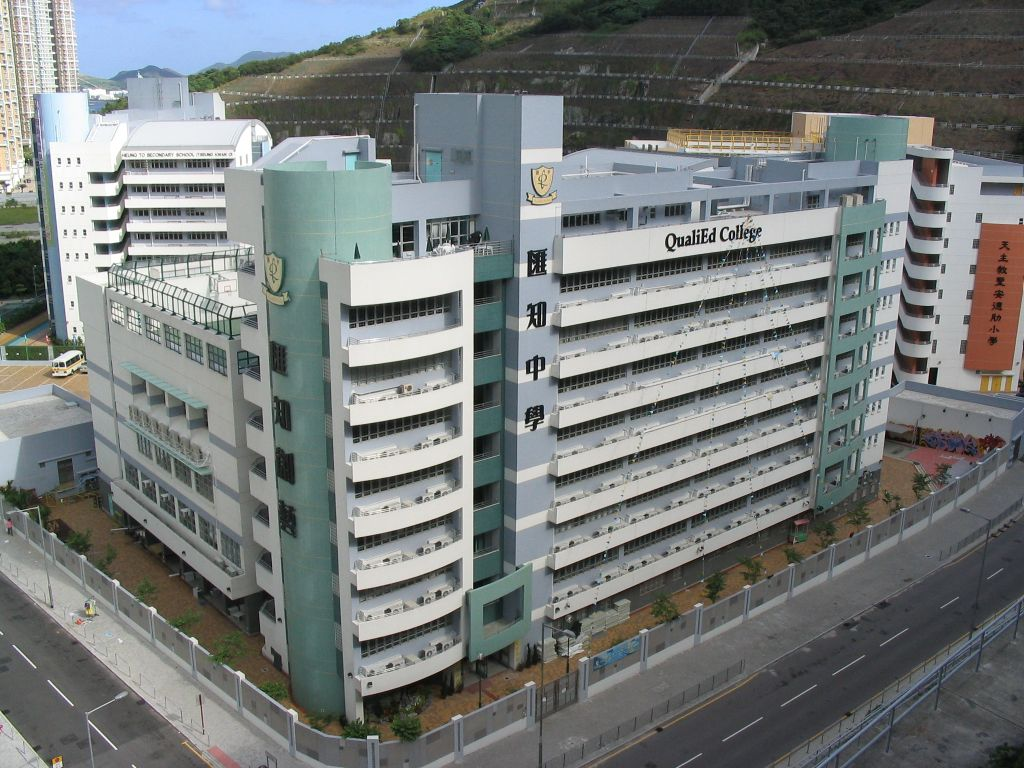 調景嶺-匯知中學 QualiEd College, Tiu King Leng